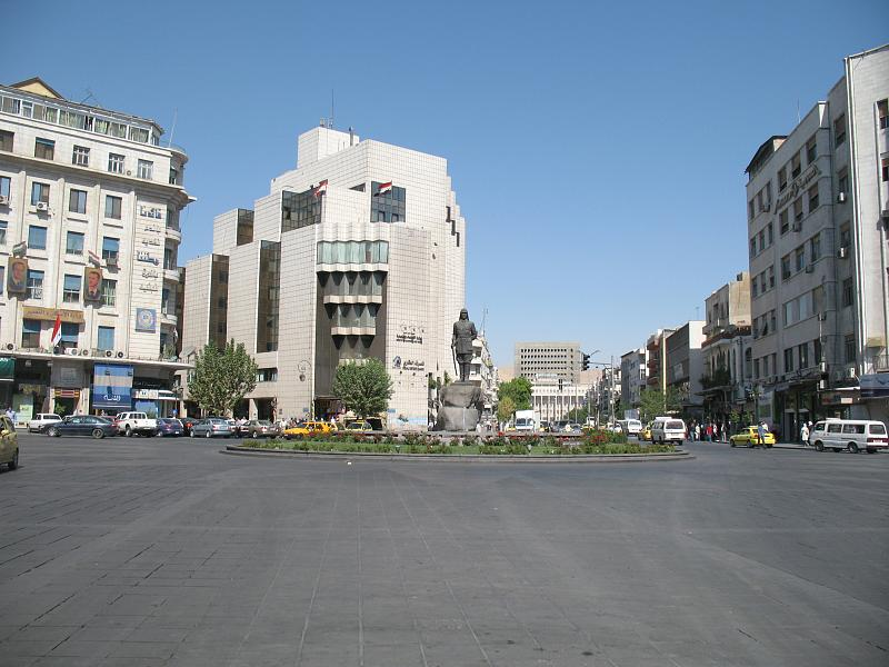 Downtown Damascus